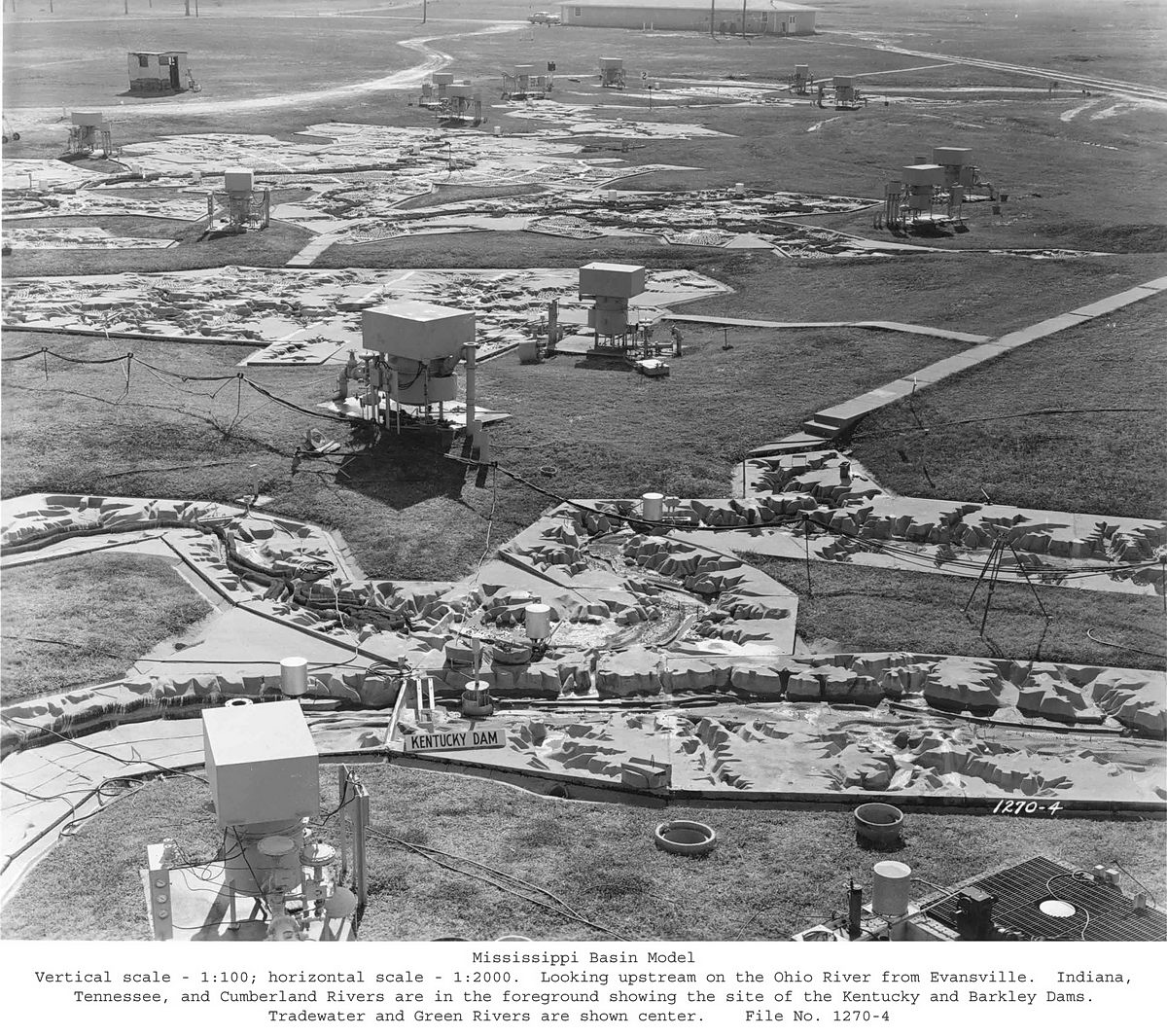 Partial overview of the Mississippi River Basin Model